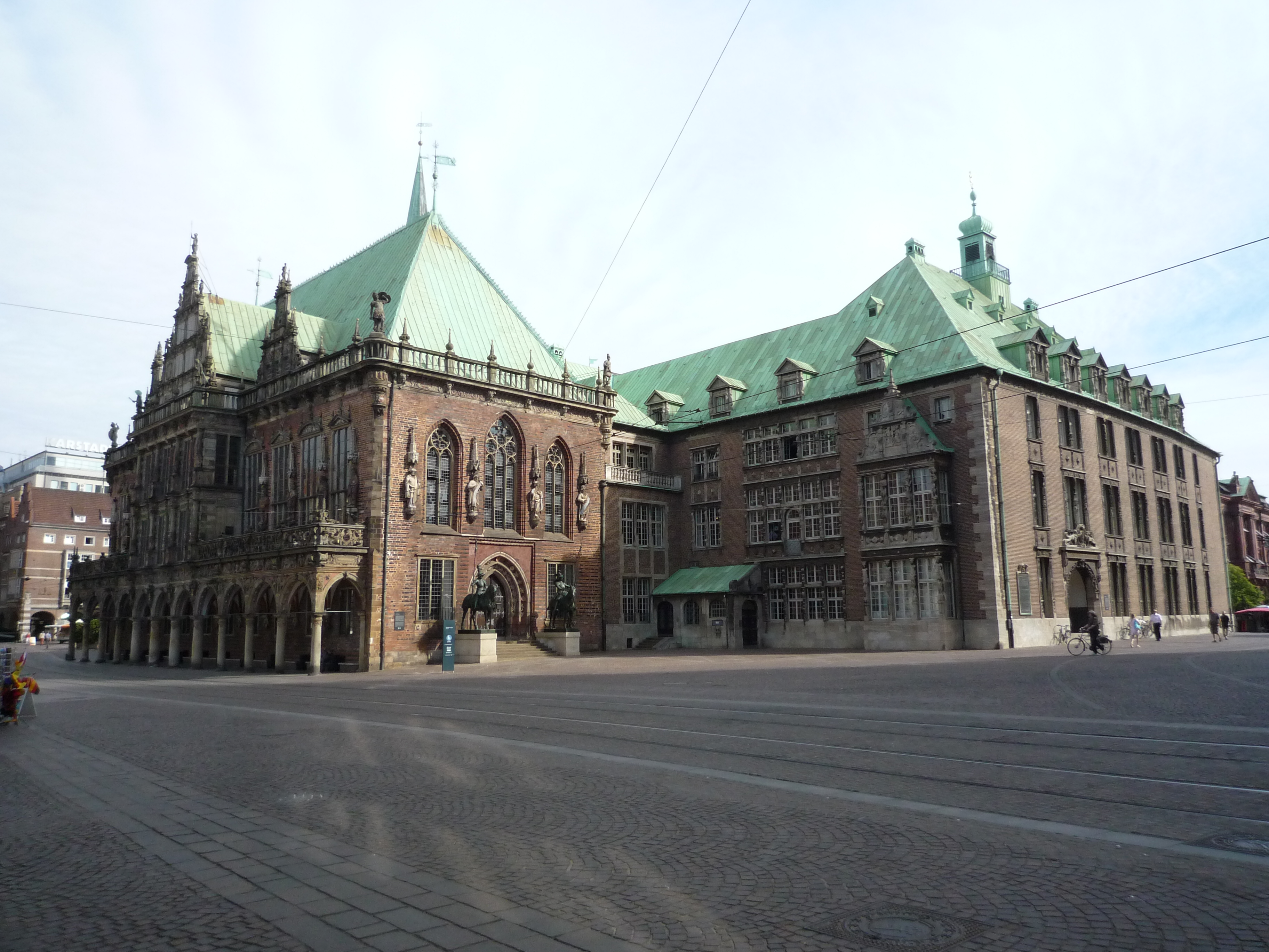 Bremen townhall